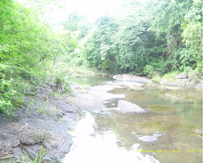 Rio Hondo, this part of the river is called by the residents such as "el cope"